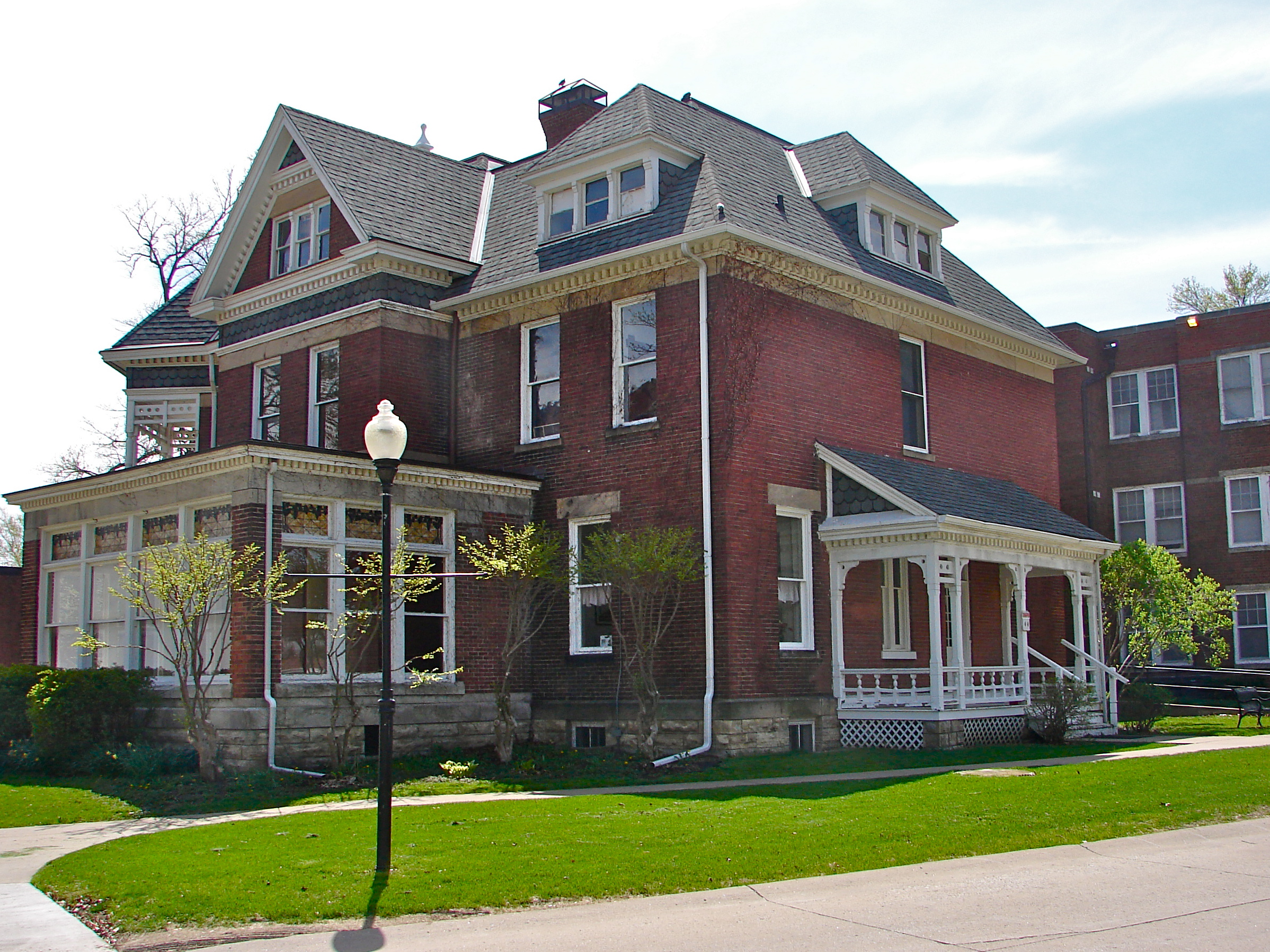 House in Marycrest College Historic District on the NRHP since April 14, 2004. The district includes portions of the 1500 and 1600 blocks of W. 12th St., Davenport, Scott County, Iowa. Former Catholic college campus operated by the Congregation of the Humility of Mary. It is now a housing complex for senior citizens. This MAY be the Max Peterson House which was listed separately on the NRHP on December 25, 1979, at 1607 W. 12th St.